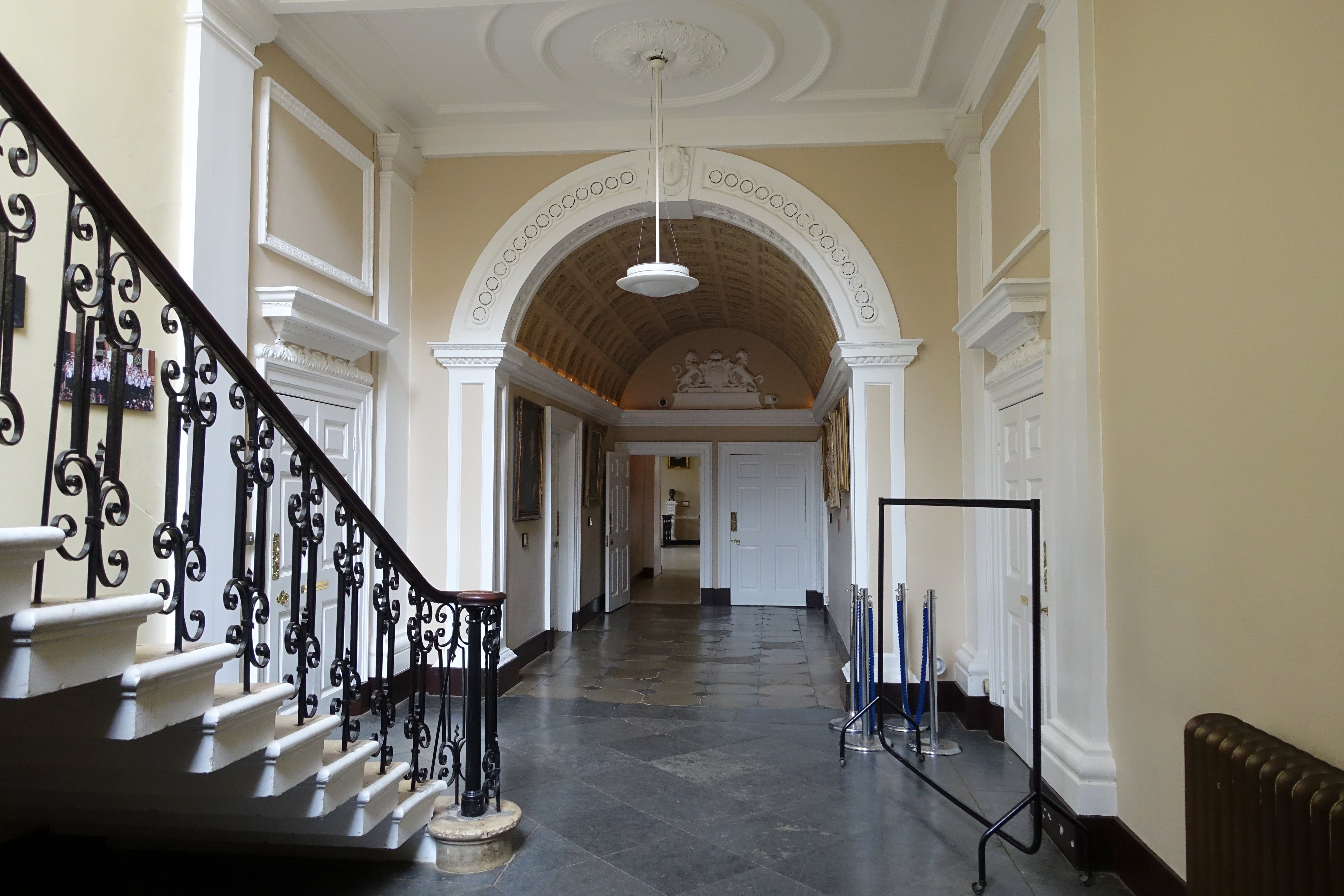 Interior view of Stowe House - Buckinghamshire, England.